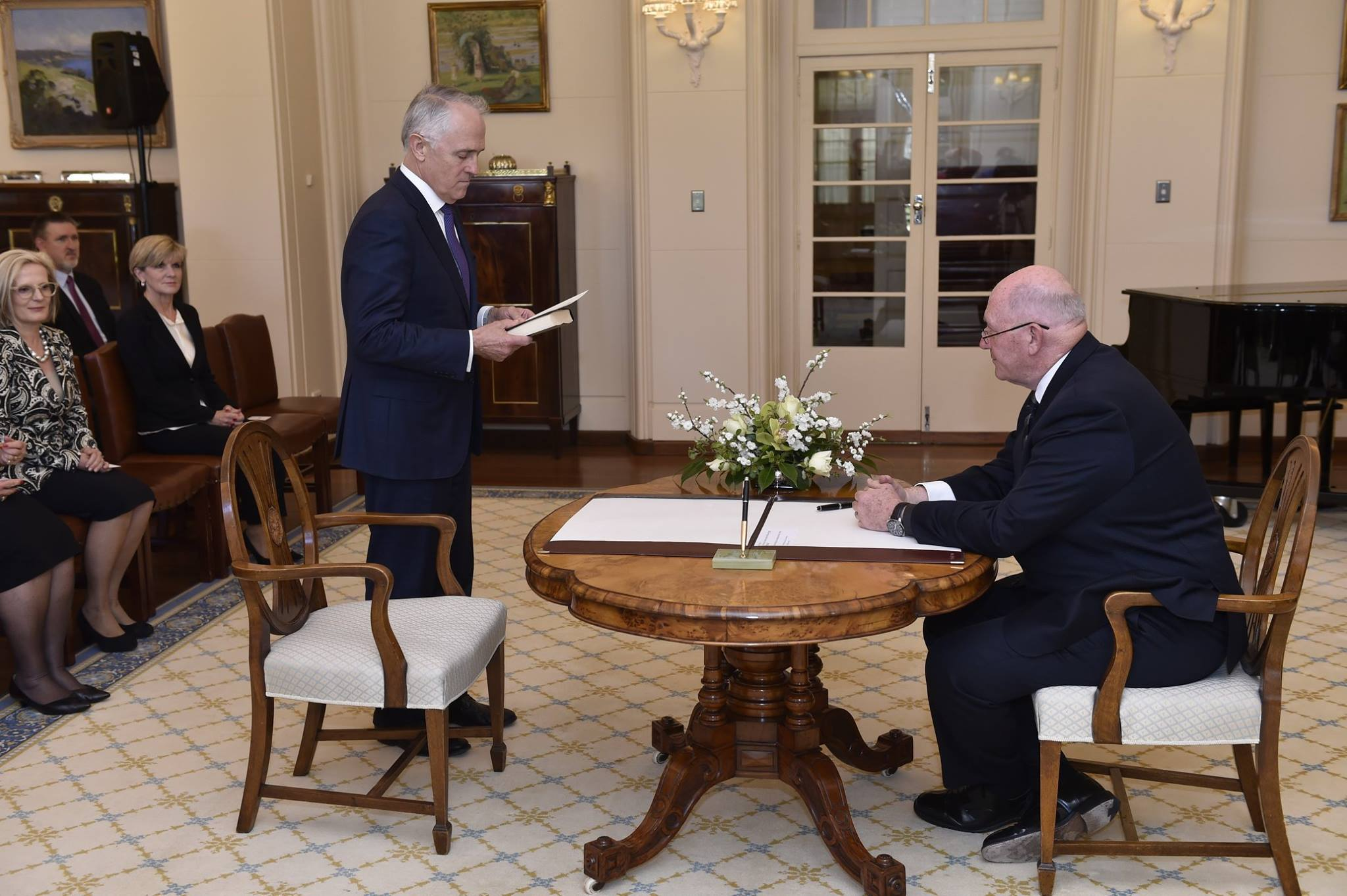 Swearing in Australia's 29th Prime Minister, the Honourable Malcolm Turnbull MP, at Government House.